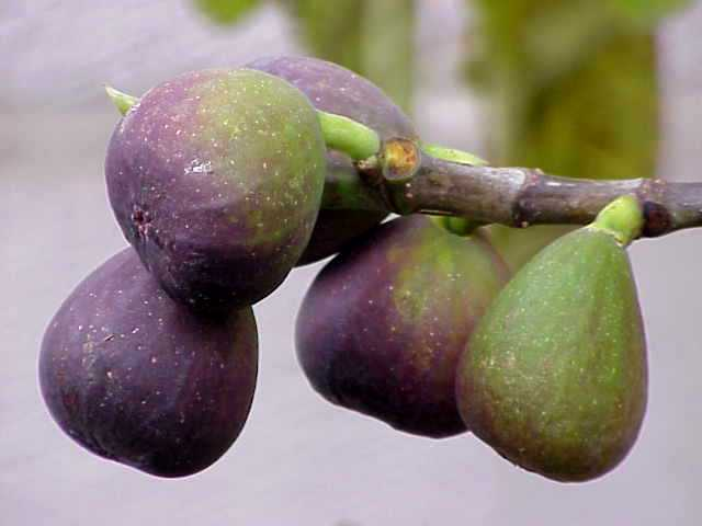 Name Ficus carica Family Moraceae Image no. 1 Permission granted to use under GFDL by Kurt Stueber Ficus carica